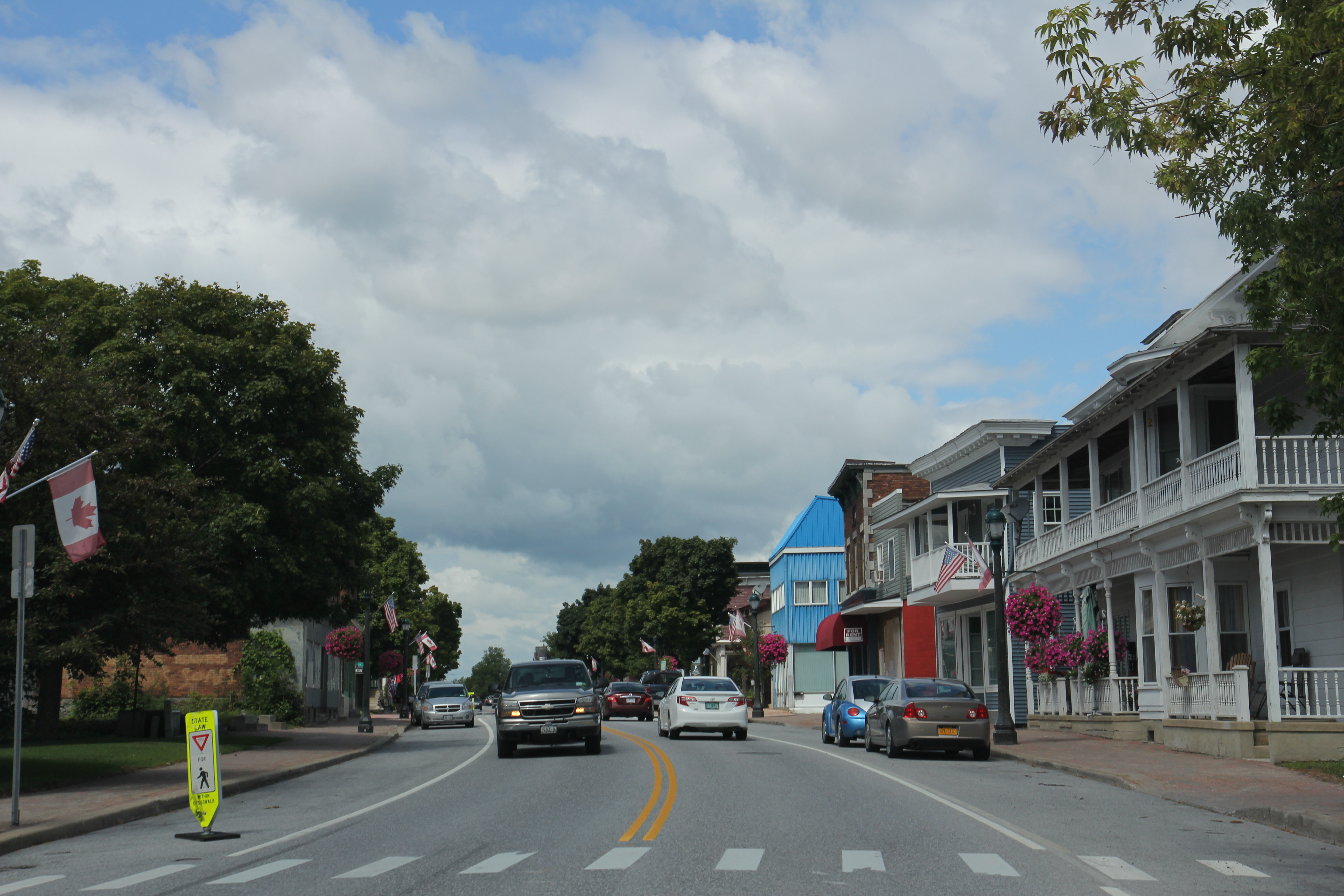 Looking north at Rouses Point, NY on US11.